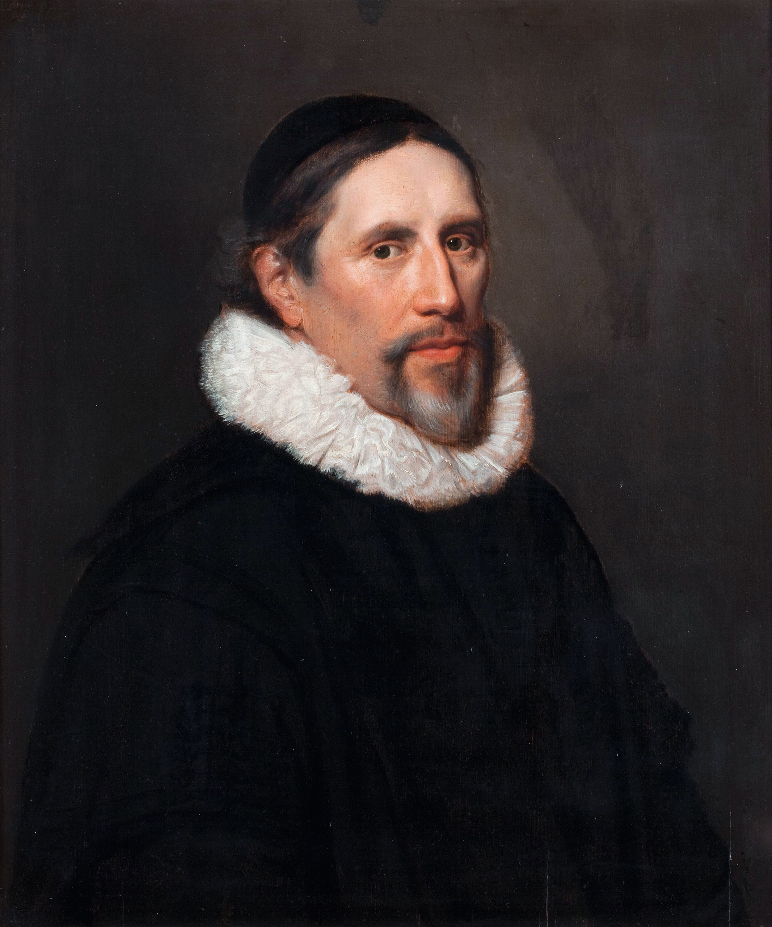 Arnoldus Geesteranus (1593- 1658) oil on panel 67,7 x 57,3 cm 1647